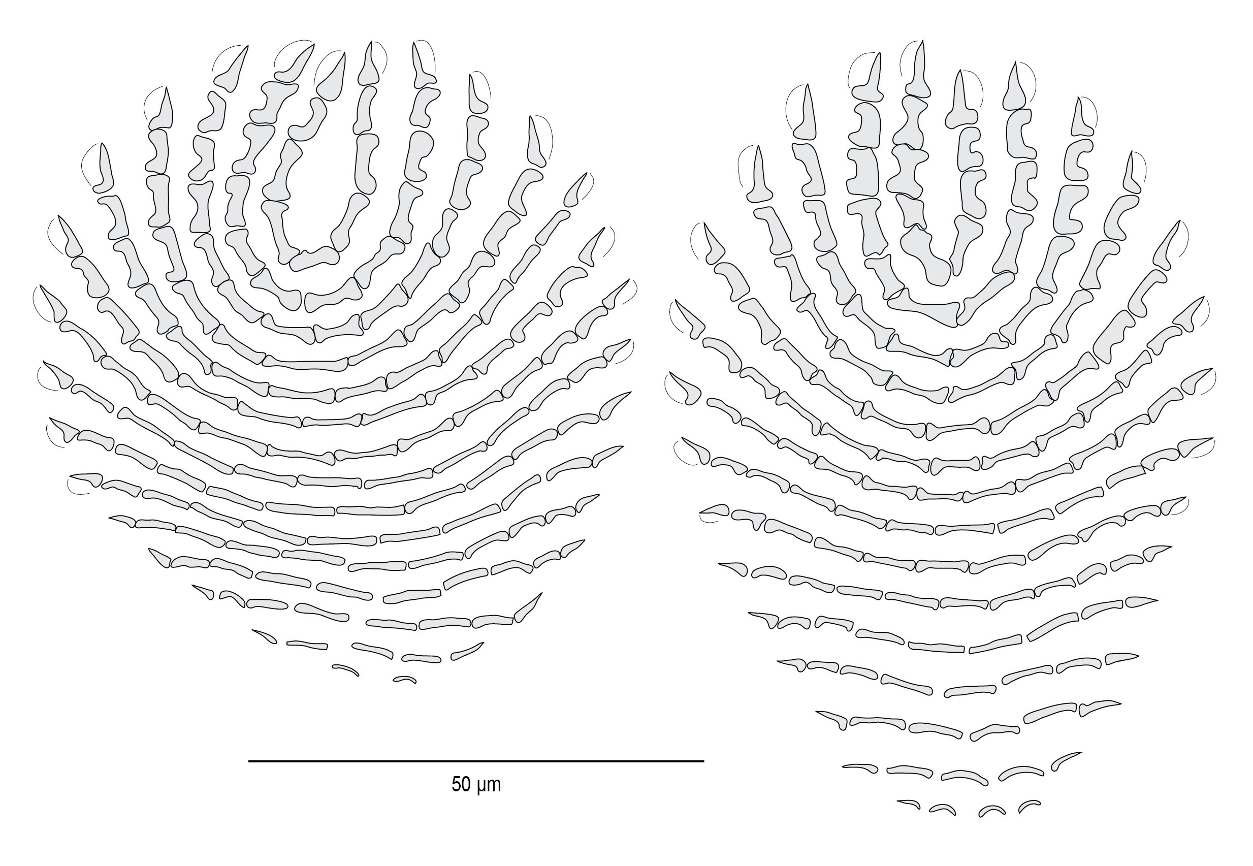 Pseudorhabdosynochus epinepheli (Monogenea, Diplectanidae) from Epinephelus chlorostigma off New Caledonia - squamodiscs (left, ventral squamodisc; right, dorsal squamodisc). Dorsal view. Original drawing, similar to Figures 7A and 7B published in: Justine, Jean-Lou, 2009: A redescription of Pseudorhabdosynochus epinepheli (Yamaguti, 1938), the type-species of Pseudorhabdosynochus Yamaguti, 1958 (Monogenea: Diplectanidae), and the description of P. satyui n. sp. from Epinephelus akaara off Japan. Systematic Parasitology, 72, 27-55.